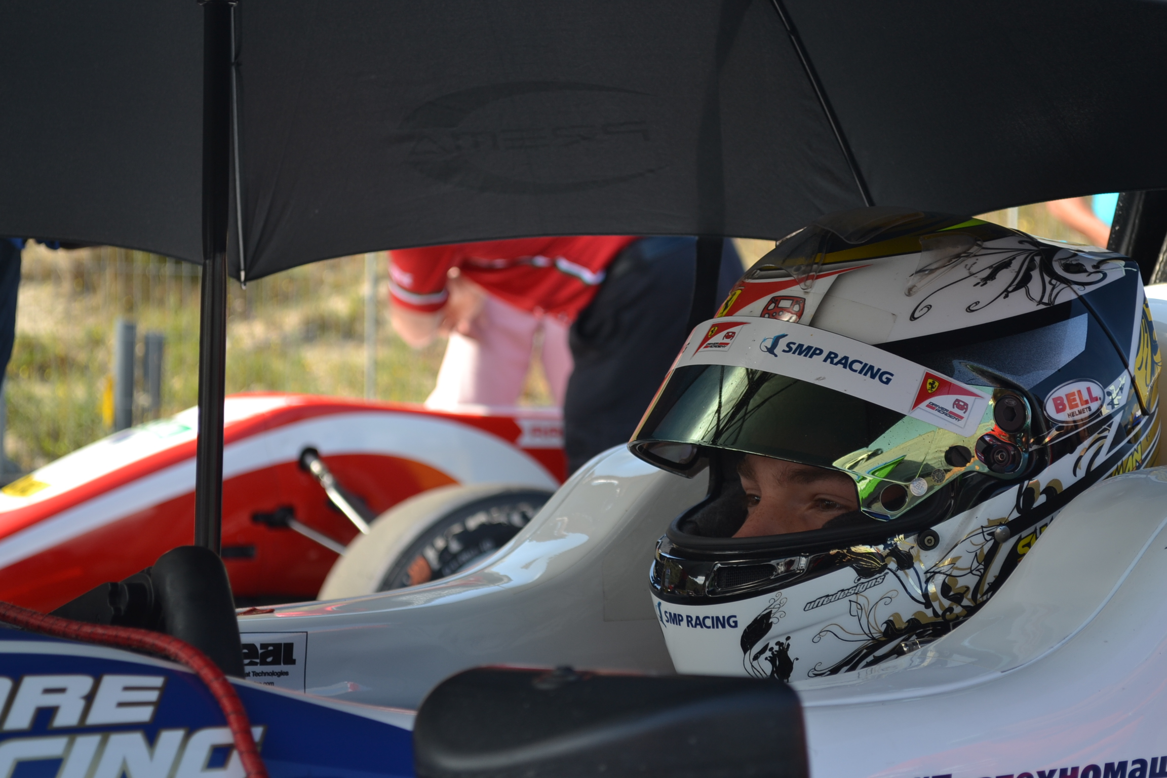 Robert Shwartzman during the 2018 FIA Formula 3 European Championship